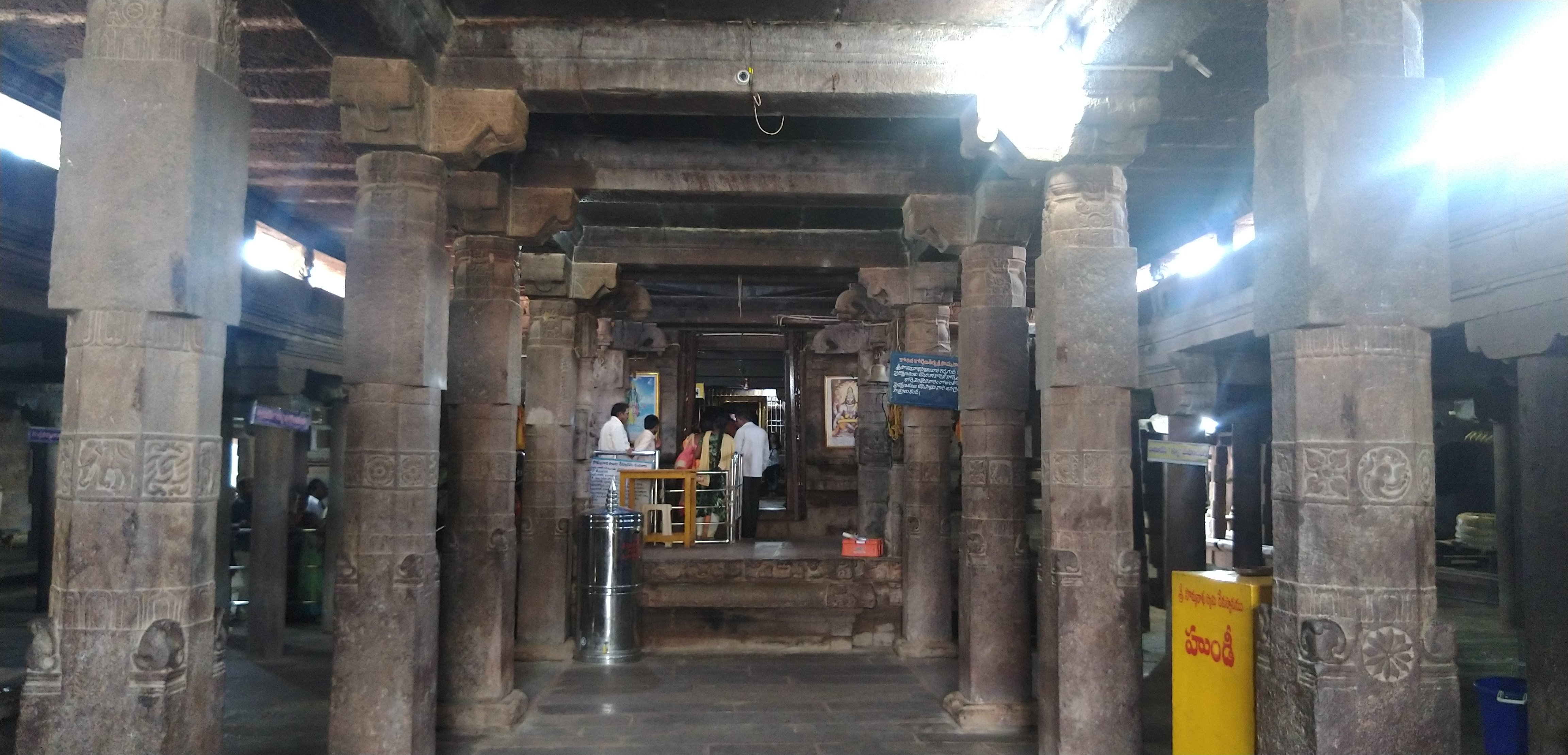 Interior of the Sowmyanatha Temple, Nandaluru, Andhra Pradesh, India